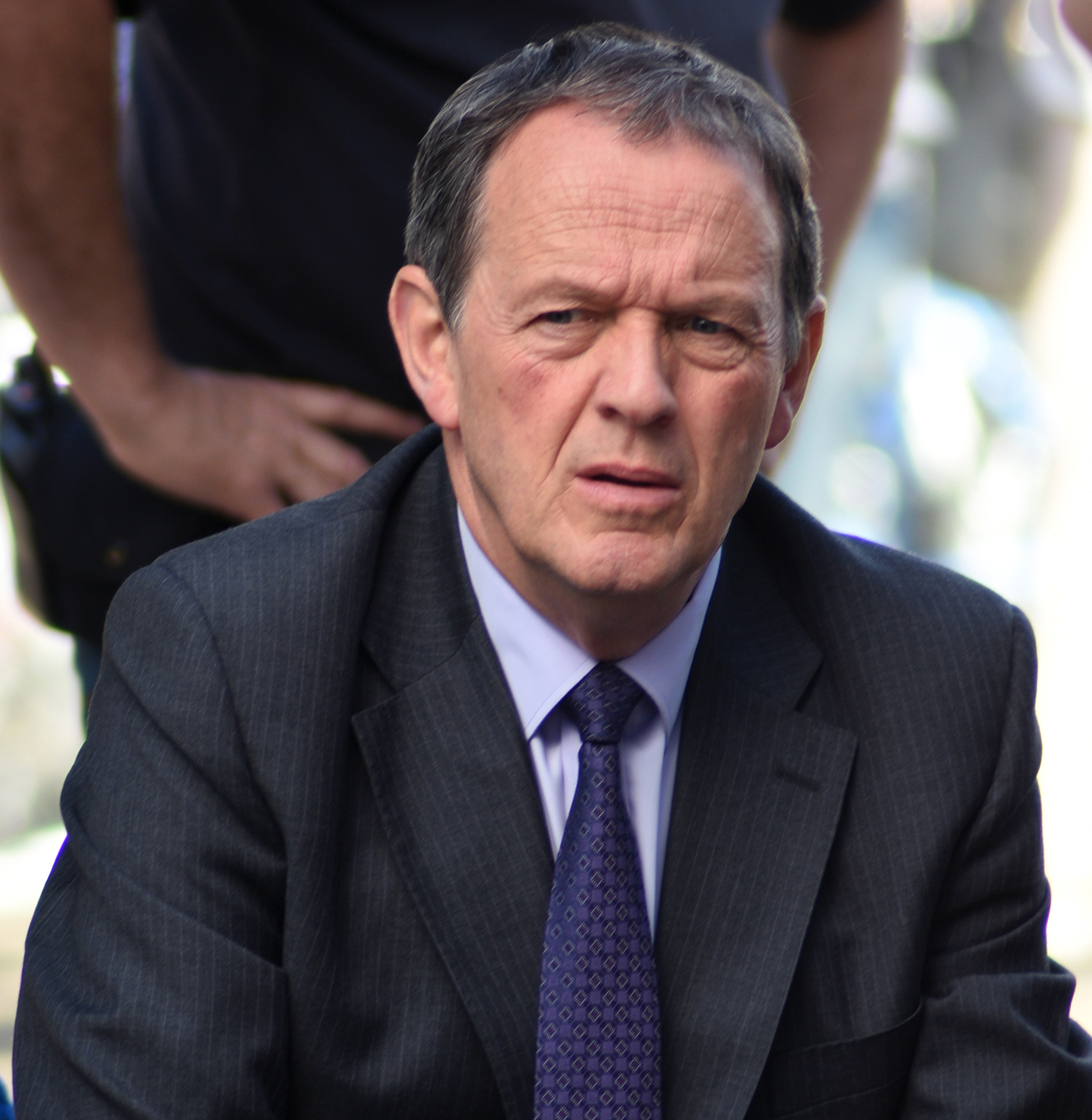 Kevin Whately as Inspector Lewis during filming of Lewis in Broad Street, Oxford, August 2015.